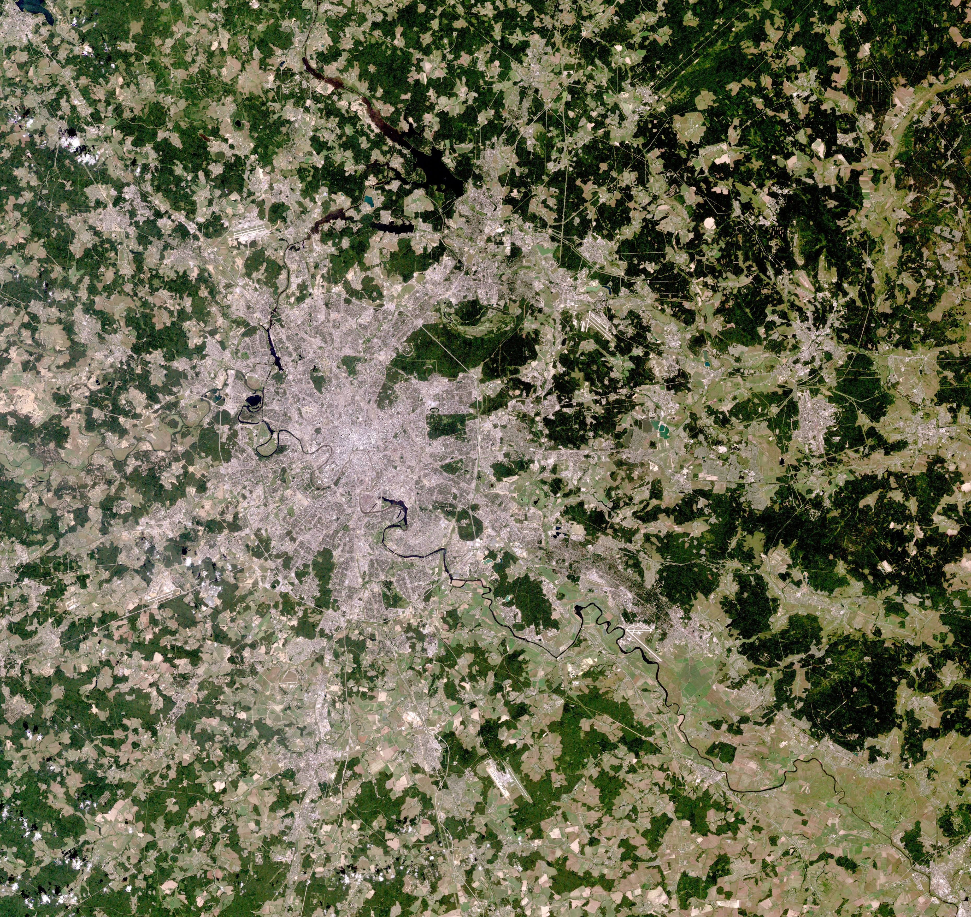 Moscow Urban Agglomeration, Russia, Landsat-7 image, near natural colors, 30m resolution